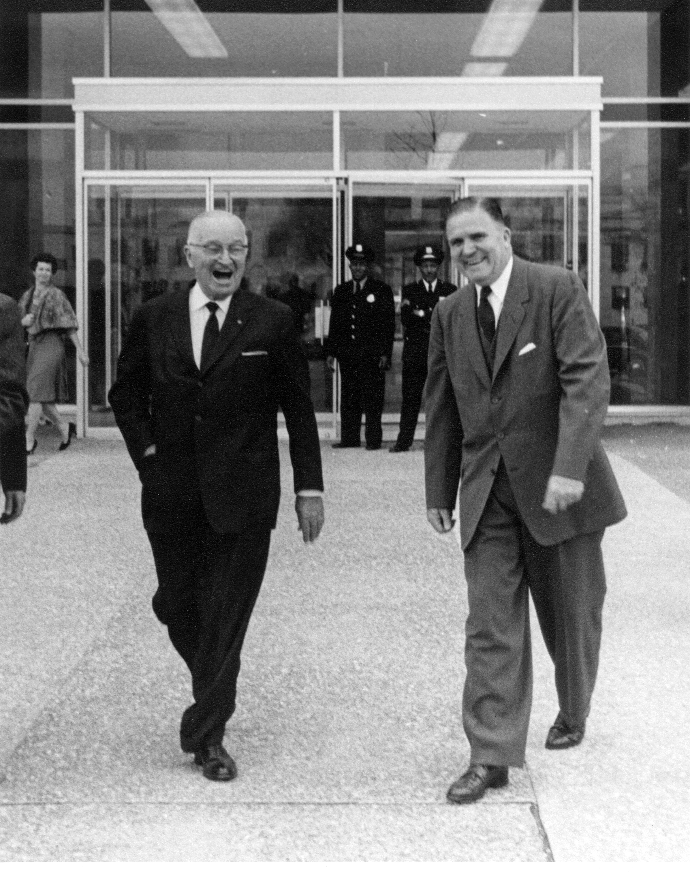 On November 3, 1961 former President Harry S. Truman visited newly opened NASA Headquarters, Washington D.C. Accompanied by former NASA Administrator James E. Webb, he was presented with a collection of rocket models for his Presidential Library in Independence, Missouri.